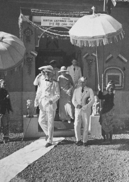 Governeur-General B.C. de Jonge brings a visit to the lontar library of the Kirtya Liefrinck-Van der Tuuk foundation